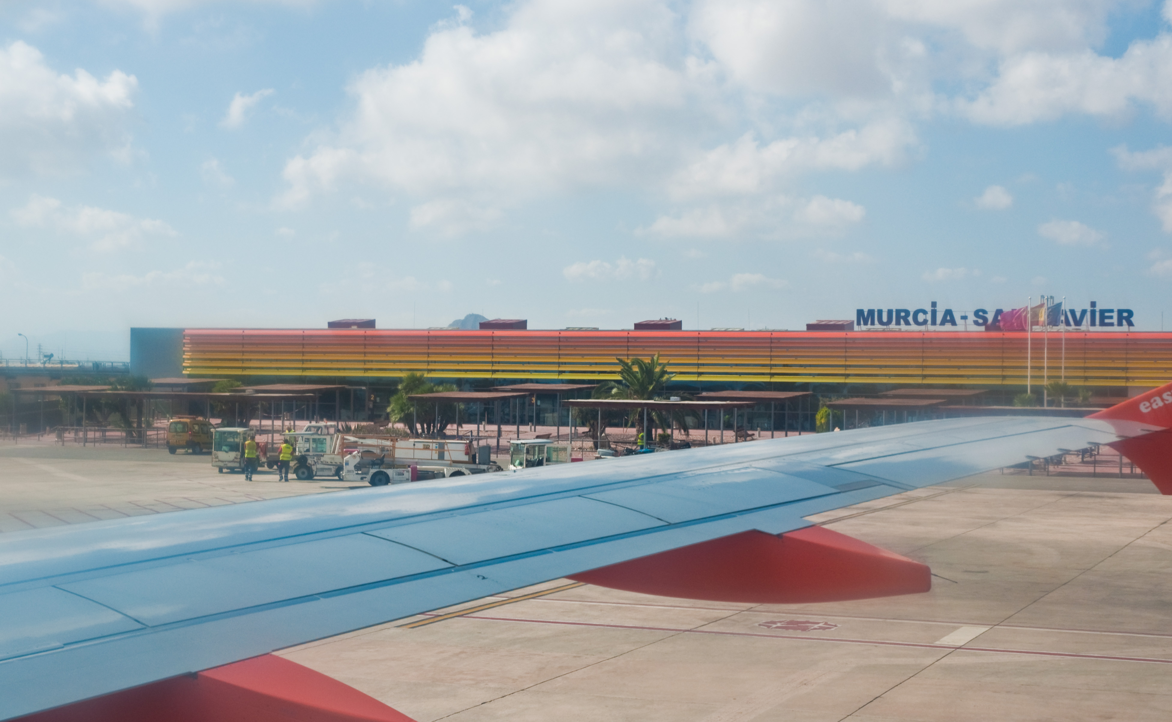 Arriving from Gatwick on an Easyjet A319.